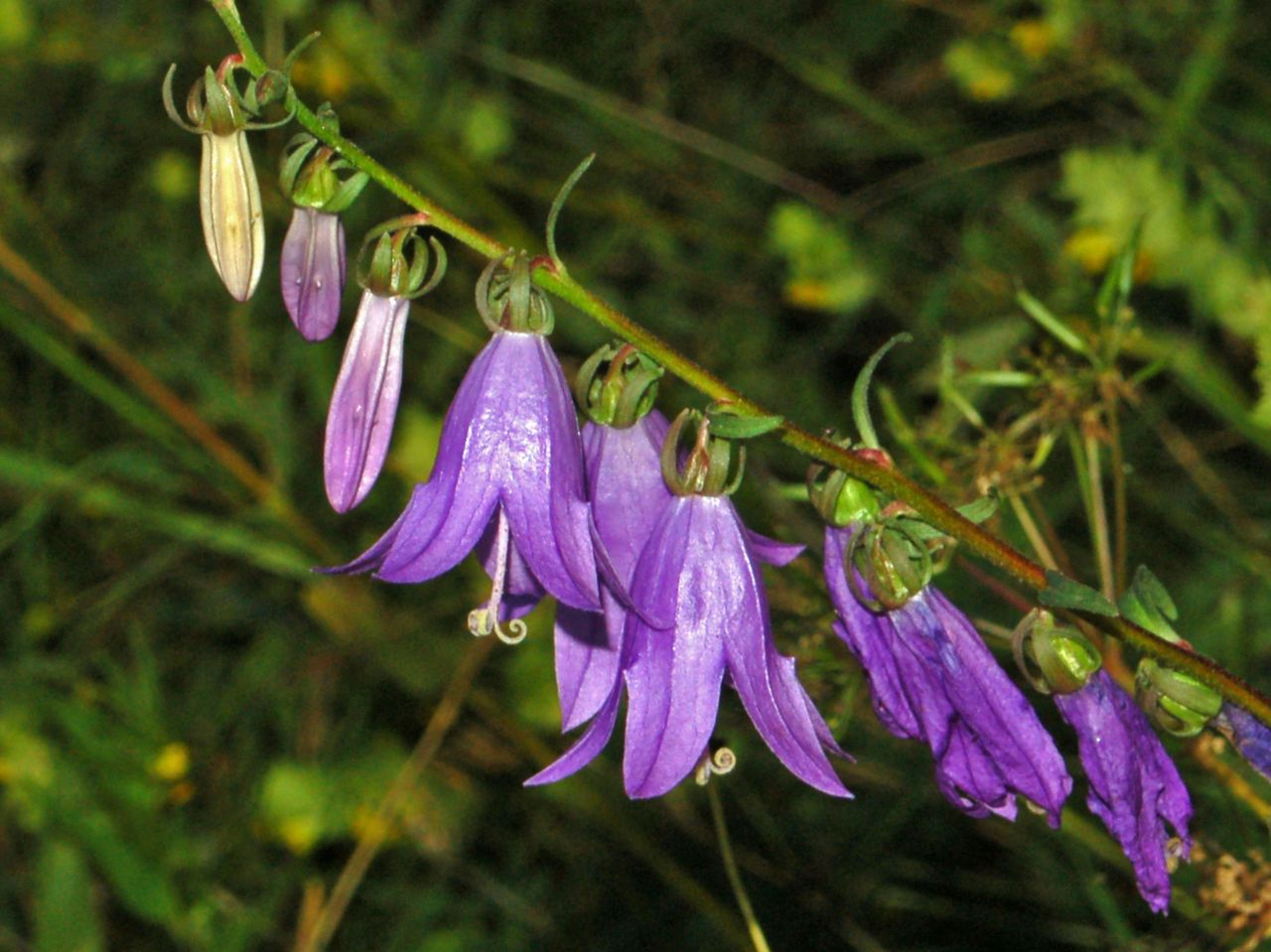 Campanula rapunculoides - Pragelato, Torino, Italy